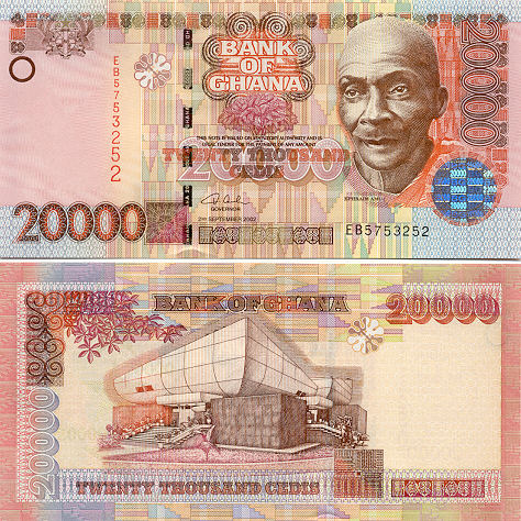 20,000 New cedis. The "inflation series"